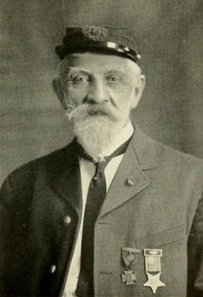 Photo circa 1911 of Smith B. Mott, regimental historian and former quartermaster of the 52nd Pennsylvania Volunteer Infantry, which fought in the American Civil War from 1861-1865.